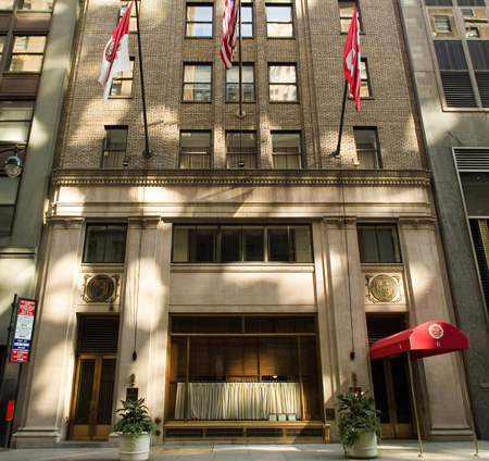 Front entrance of the Cornell Club, a New York City clubhouse for alumni of Cornell University.